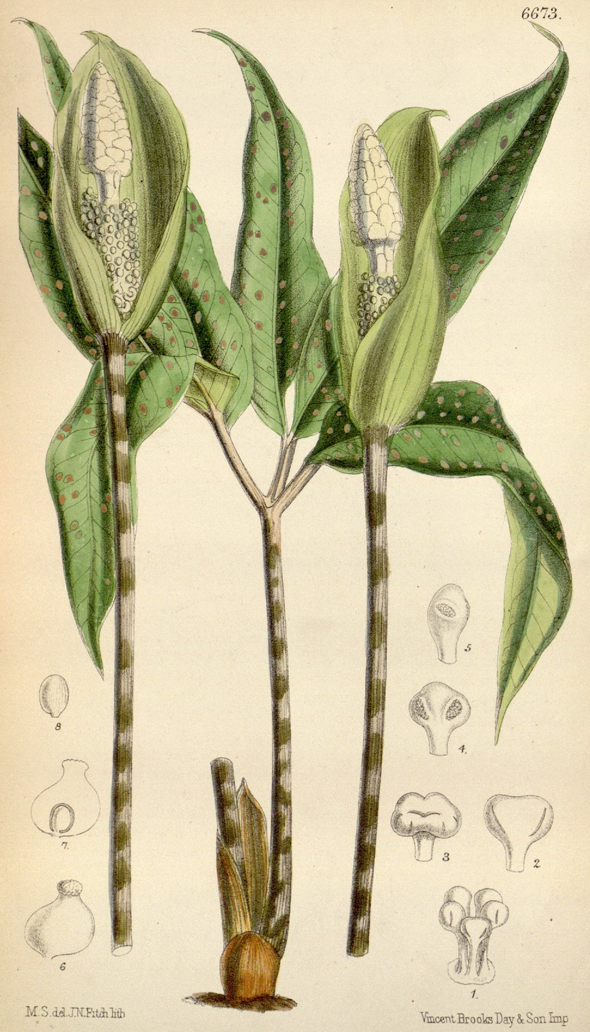 Pseudodracontium lacourii botanical drawing